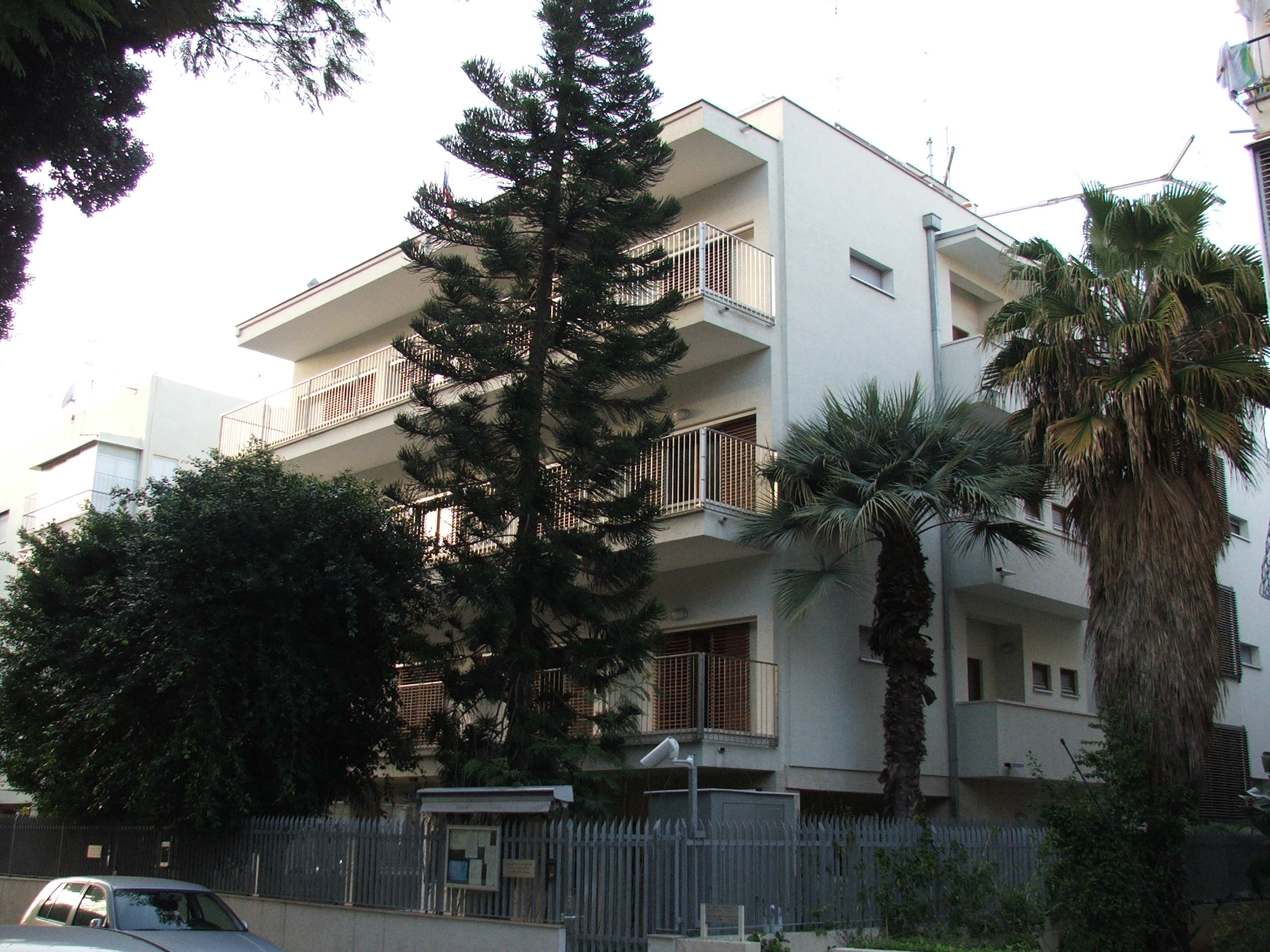 Embassy of Czechia in Tel Aviv - Israel.